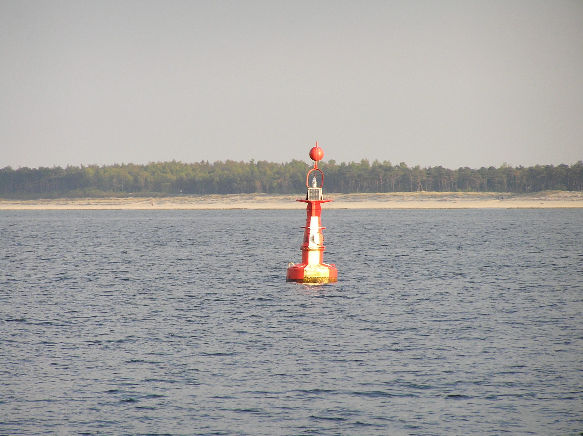 WŁA safe water sea mark